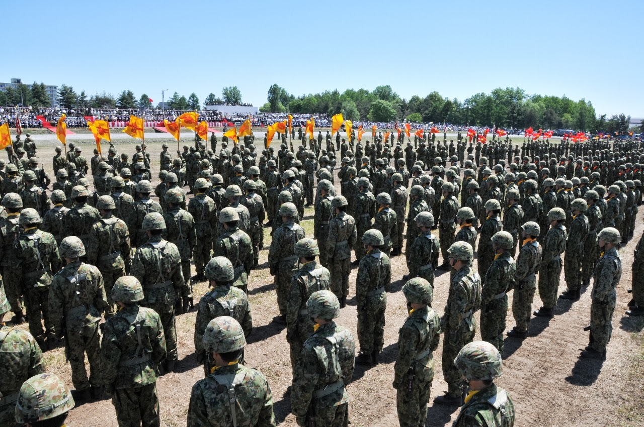 Title 第２師団創立６３周年及び旭川駐屯地開設６１周年記念行事DSC_9725.jpg Album Events and Public Relations (イベント・行事・広報活動等) 第２師団創立６３周年及び旭川駐屯地開設６１周年記念行事（旭川）